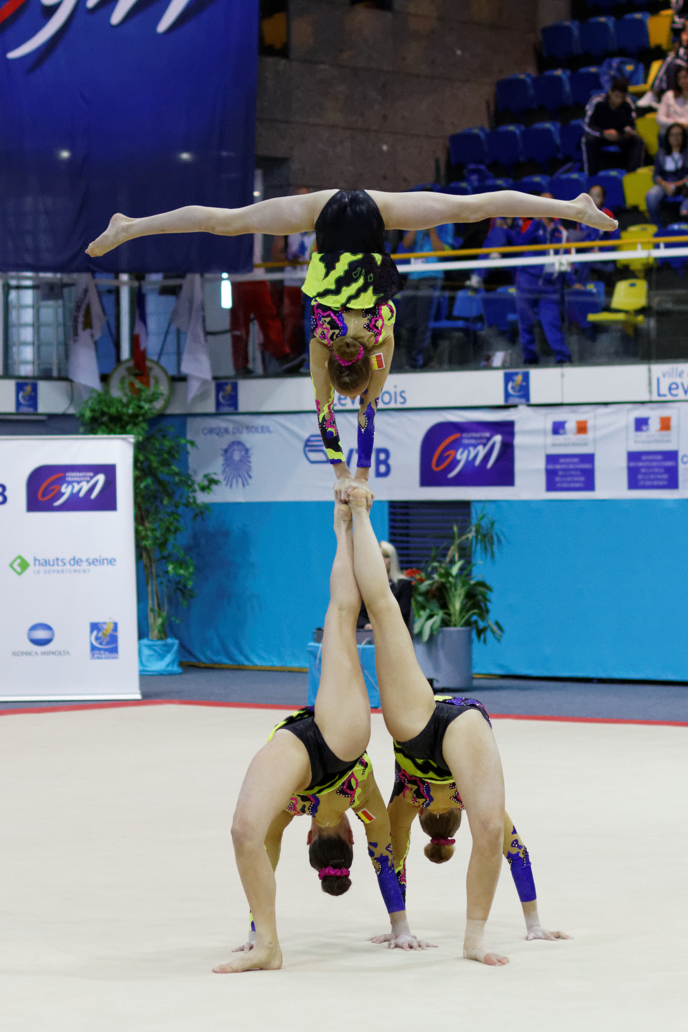 2014 Acrobatic Gymnastics World Championships, 10th-12 July, Levallois-Perret, France. Qualifications: women's group. Belgium.